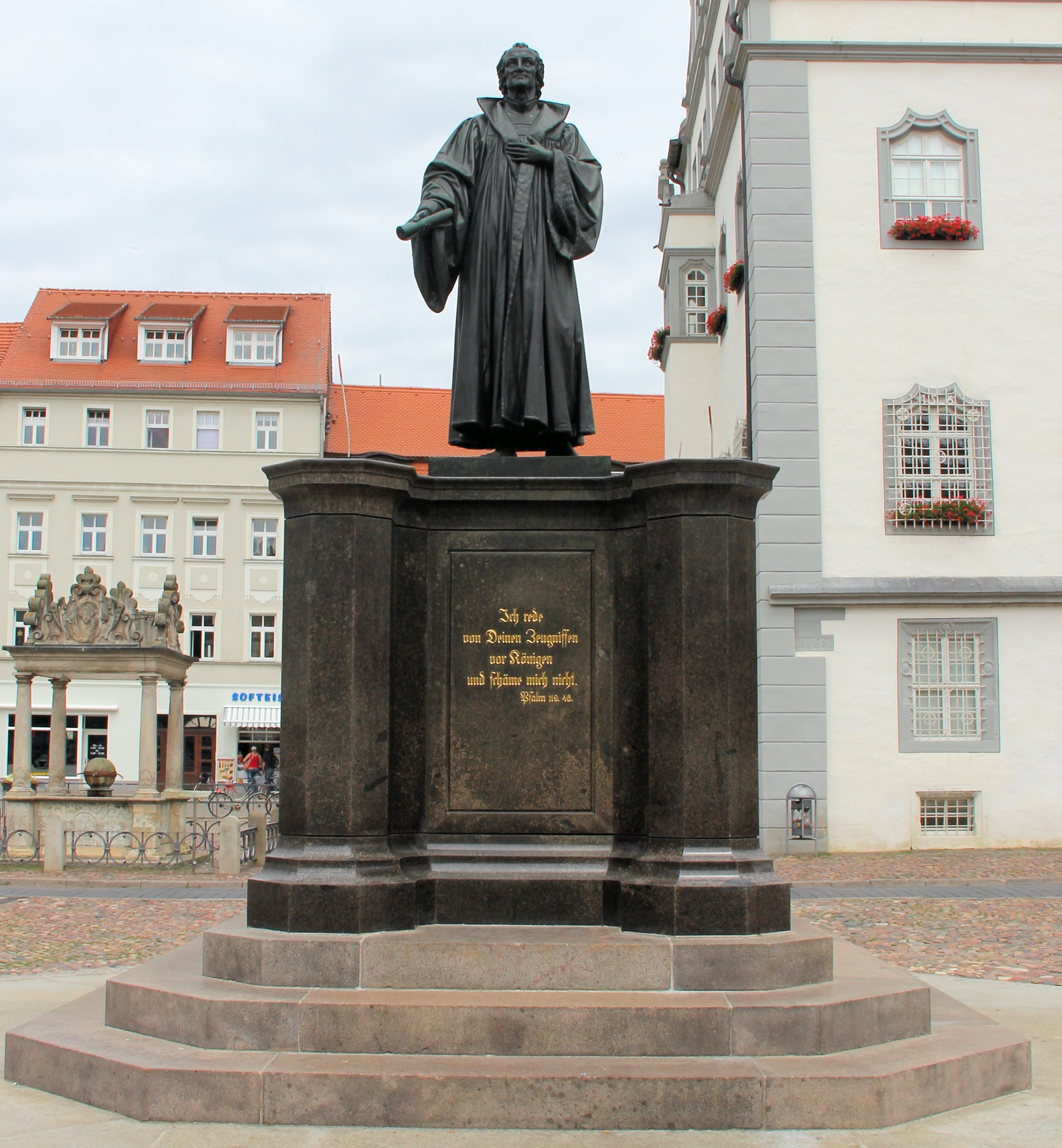 Memorial statue, Philipp Melanchthon, Marktplatz, Lutherstadt Wittenberg, Germany Koordinate:51°51′59″N 12°38′39″E / 51.86639°N 12.64417°E